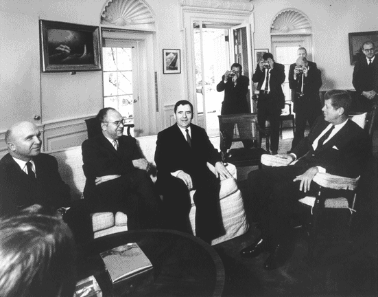 This is a photograph of President John F. Kennedy meeting with the Soviet Minister of Foreign Affairs in the Oval Office. Shown in the picture are left to right: Vladimir Semenov, Soviet Deputy Minister of Foreign Affairs; Anatoly F. Dobrynin, Ambassador of the Union of Soviet Socialist Republic (USSR) to the United States; Andrei Gromyko, Soviet Minister of Foreign Affairs; President of the United States John F. Kennedy; photographers.